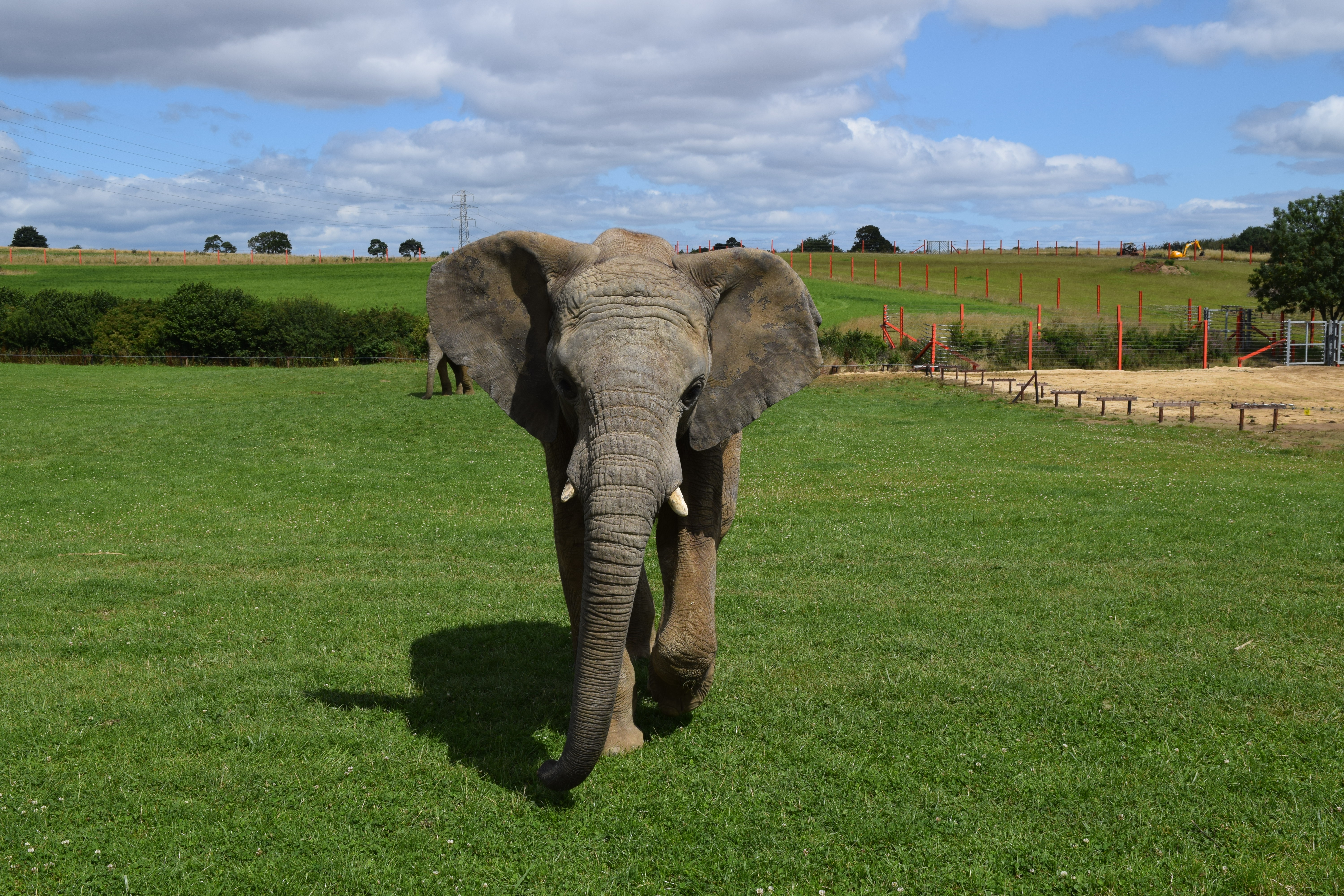 Elephant at Noah's Ark Zoo Farm